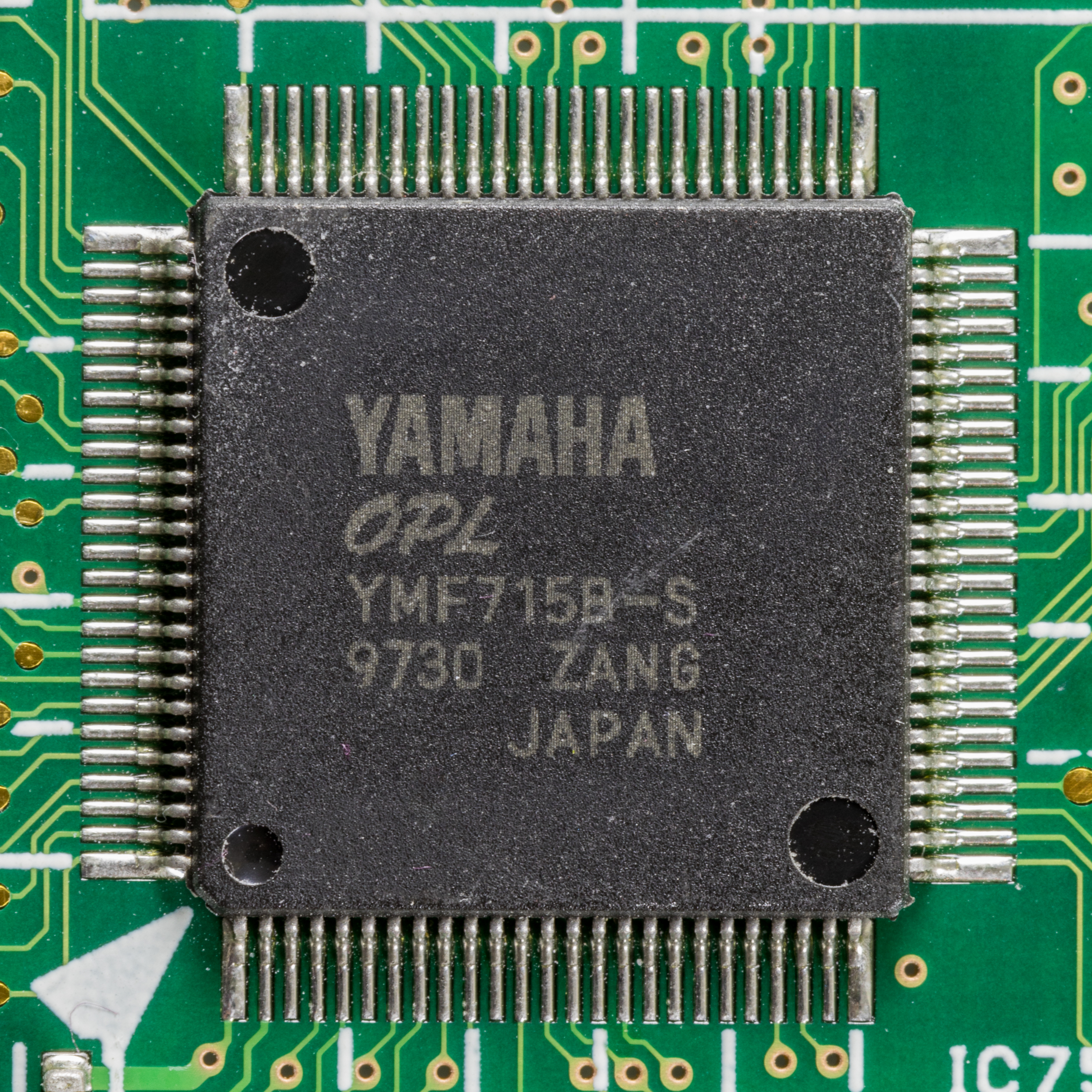 Toshiba Satellite 220CS - motherboard FVNSS2 - Yamaha OPL YMF715B-S - OPL3 Single-chip Audio System 3. Package: 100-pin SQFP